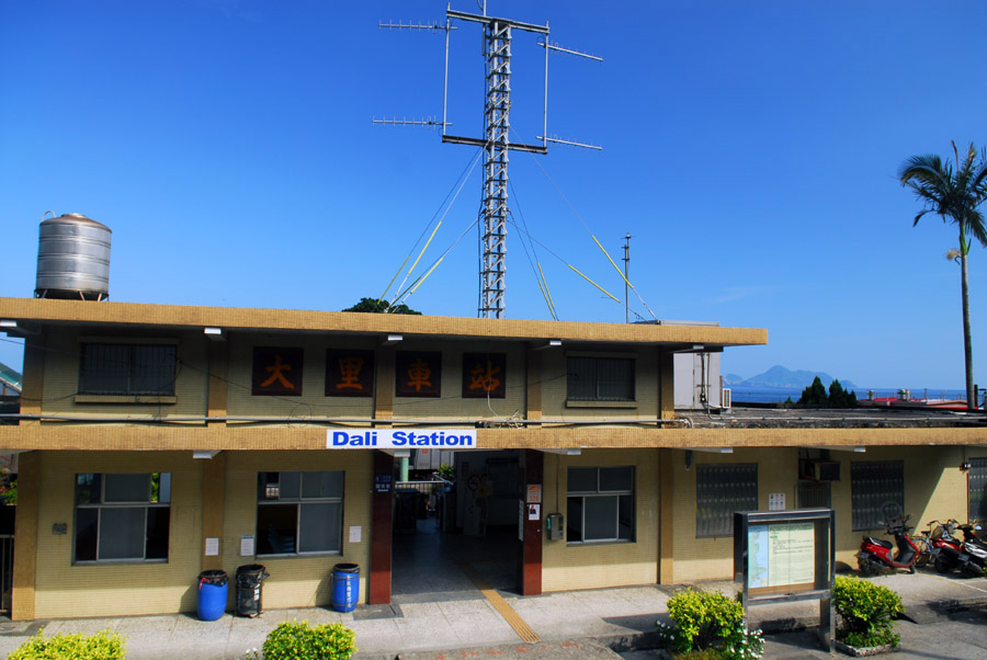 DaLi Station is a local train station of Yilan Line, part of Taiwan's eastern rail line. It's located within the boundary of TouCheng Town, YiLan County.